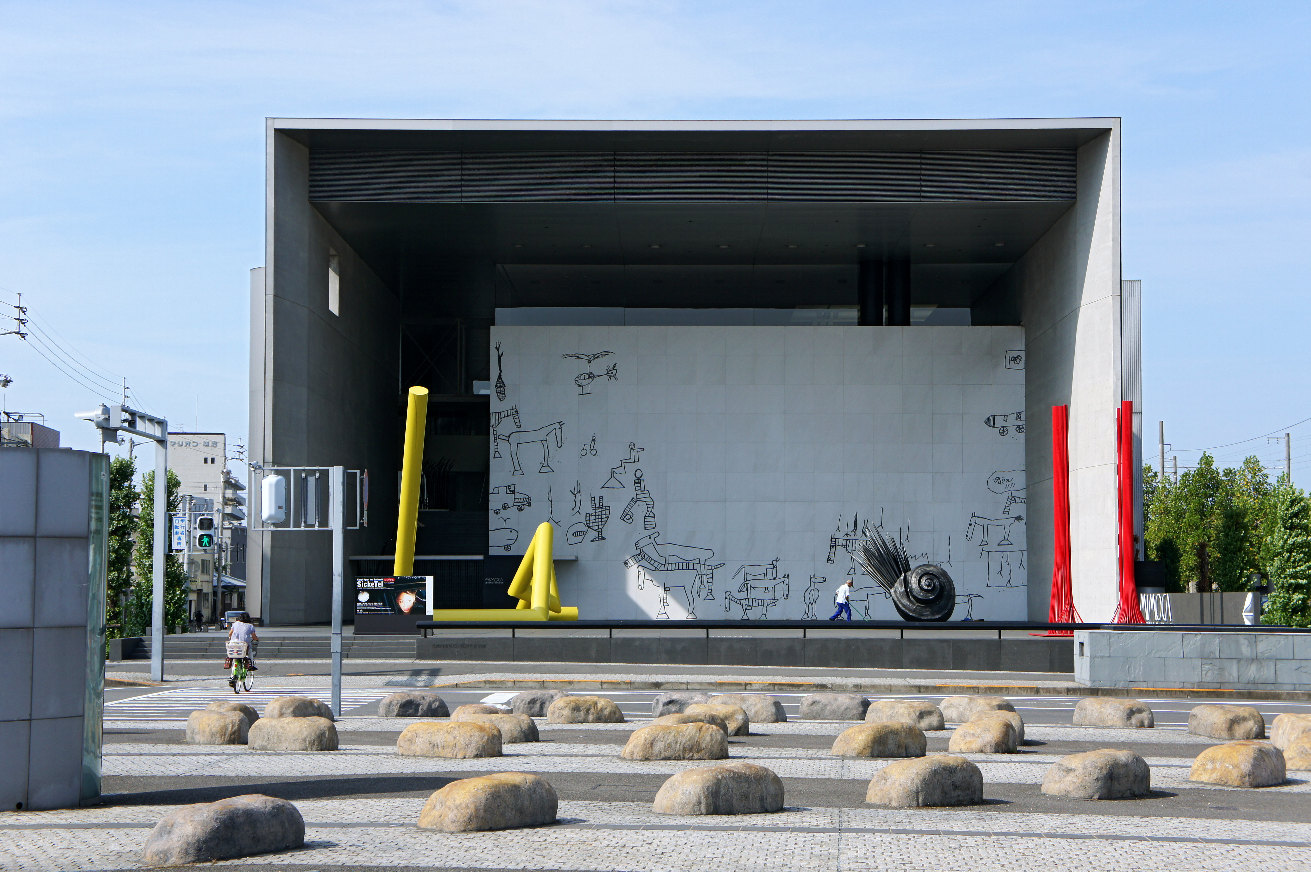 Marugame Genichiro-Inokuma Museum of Contemporary Art in Marugame, Kagawa prefecture, Japan